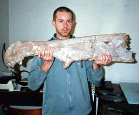 Simone Maganuco, second author of the Dal Sasso et al. (2005) paper, holding MSNM V4047 snout of S. aegyptiacus which is 98.8 centimetres (38.9 in) in length